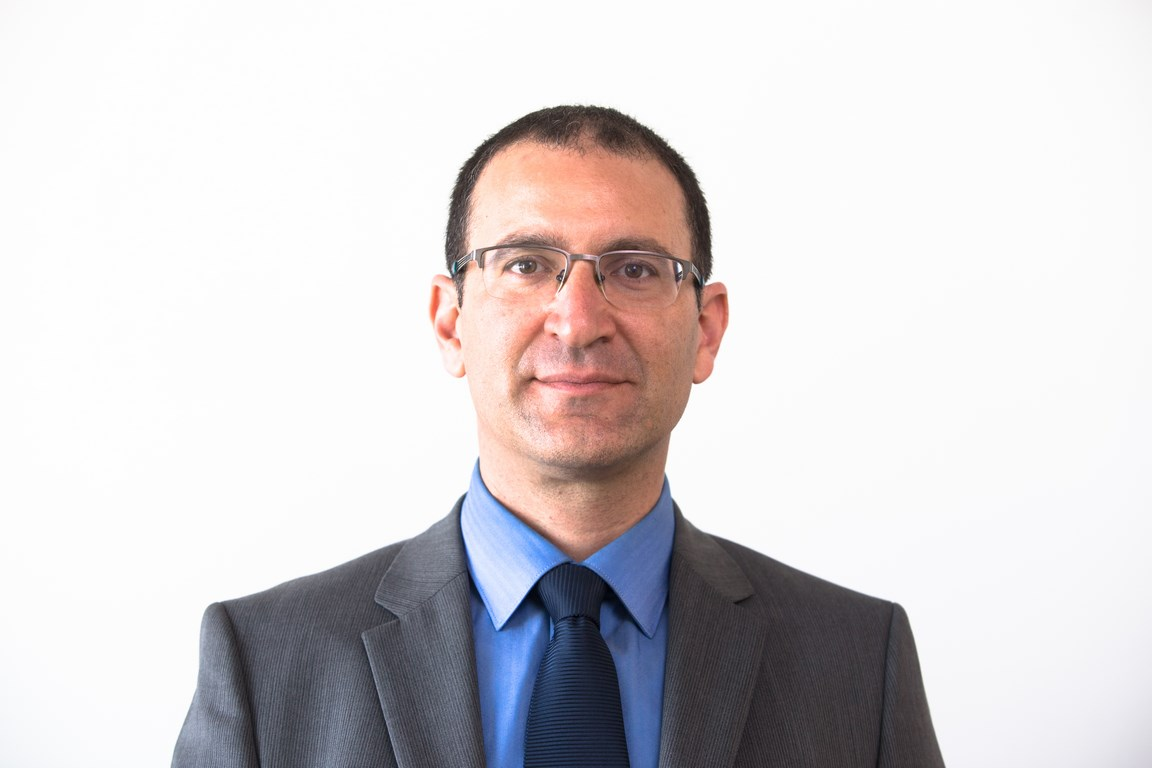 Zvi Gabbay